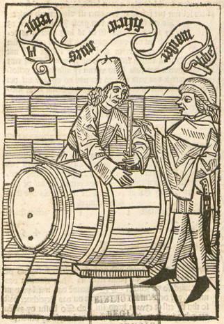 "Liber maister fisirit mirs recht". Translation: Dear Master, gauge well. Determination of the diameter of a wine cask. Visierbüchlein (Bamberg) 1485.